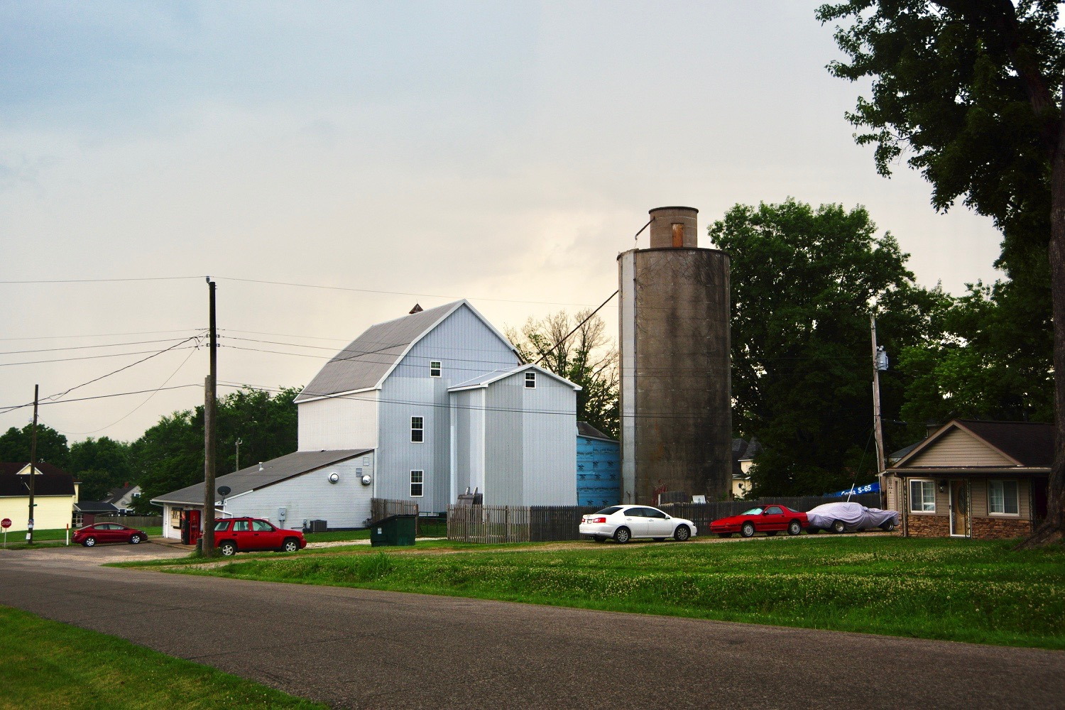 Schultz's Mill, a former flour mill in Elberfeld, Indiana, United States.